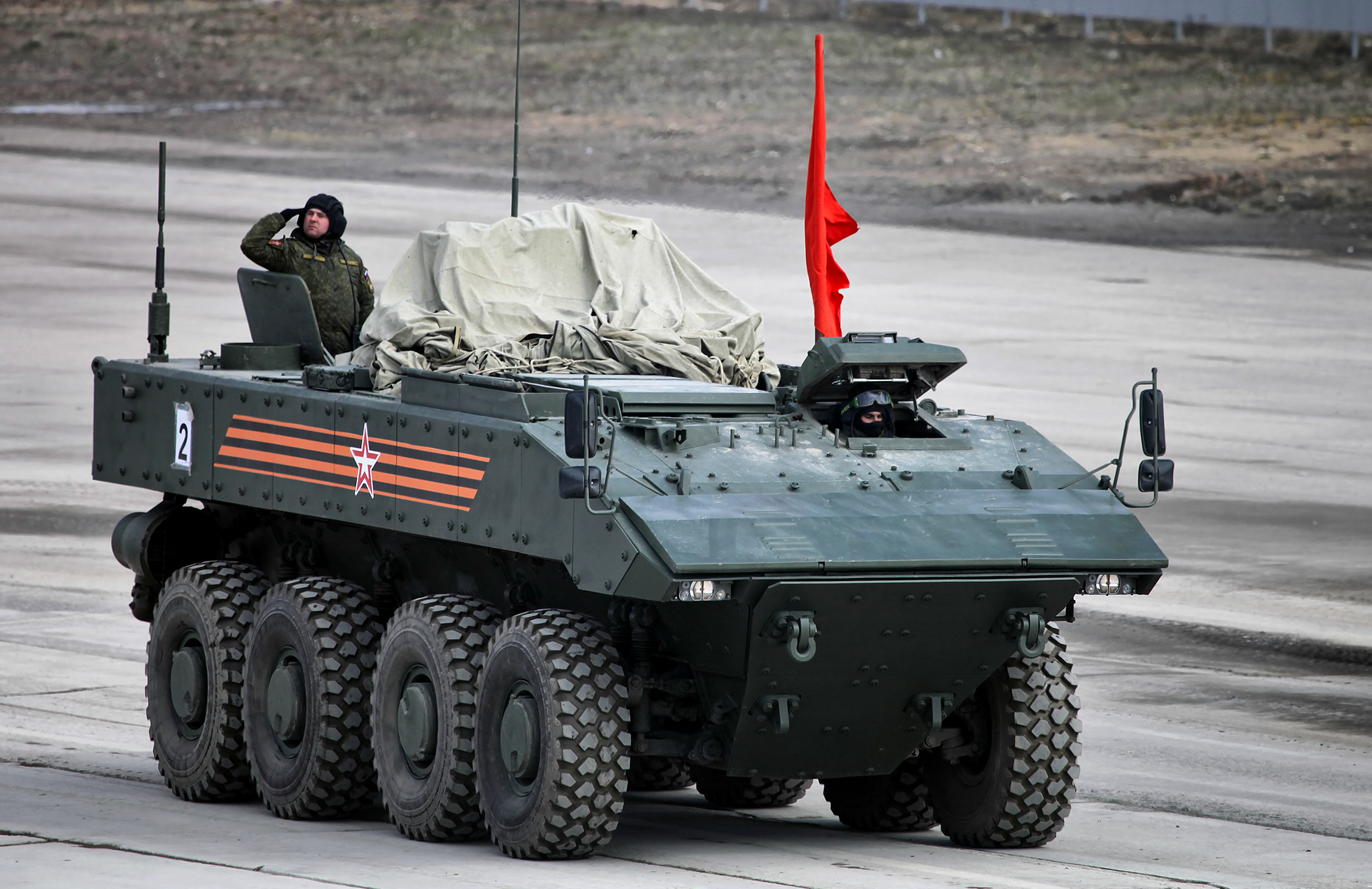 APC VPK-7829 Bumerang (during the first open rehearsal in Alabino)